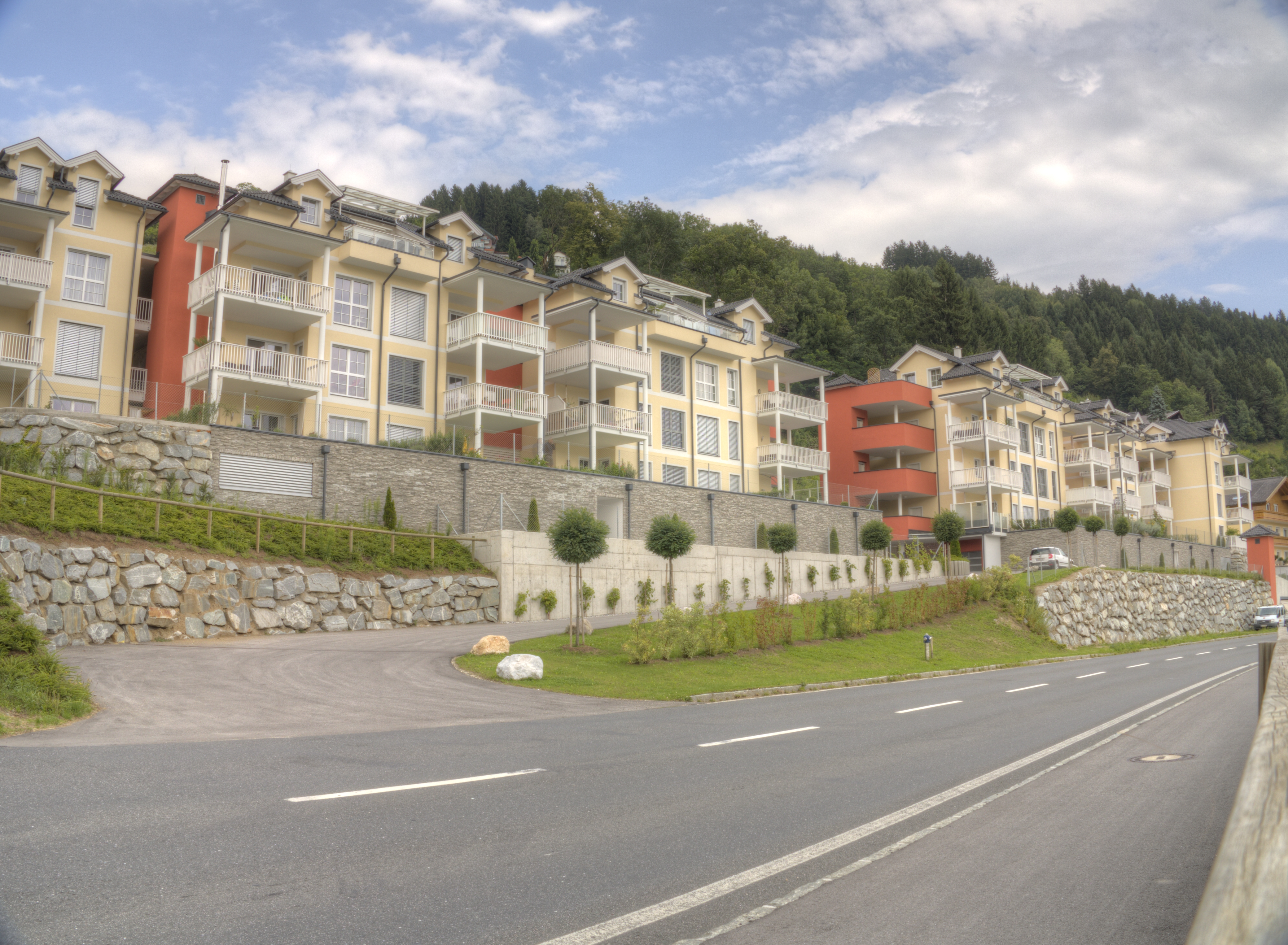 Millstatt at Millstätter See in Carinthia / Austria / EU.